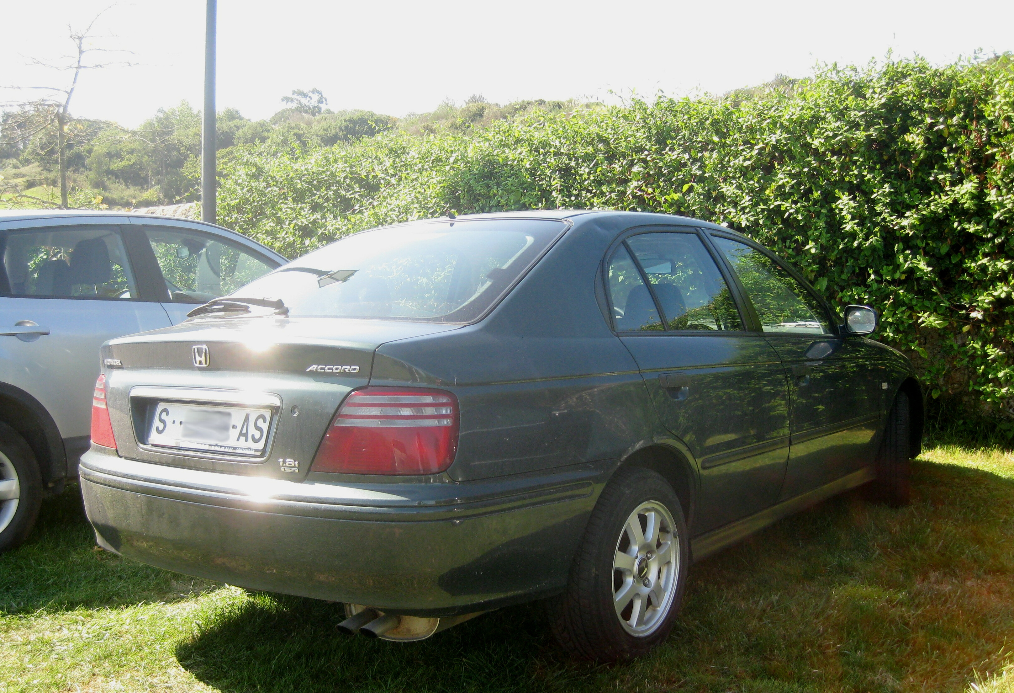 Had never seen a hatchback version of this generation.